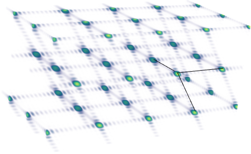 The Fourier transform of a monoclinic lattice with real-space vectors a = (1, 0, 0), b = (0, 1, 0), c = (0.5, 0, 0.8). (These vectors are arbitrary.) A 12×12×12 lattice of delta functions was used. The reciprocal lattice vectors are marked on in black.